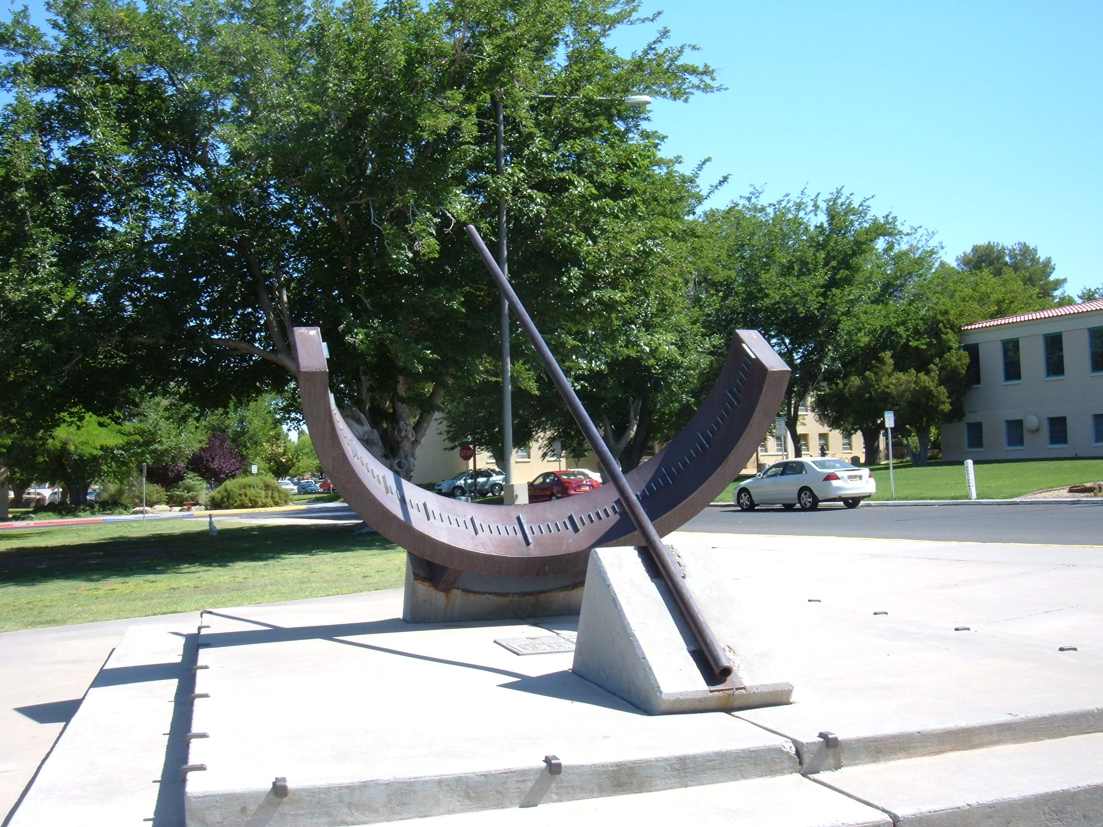 Sundial at New Mexico State University at Las Cruces. About 6 feet across. Located in the Horseshoe in front of Hadley Hall.